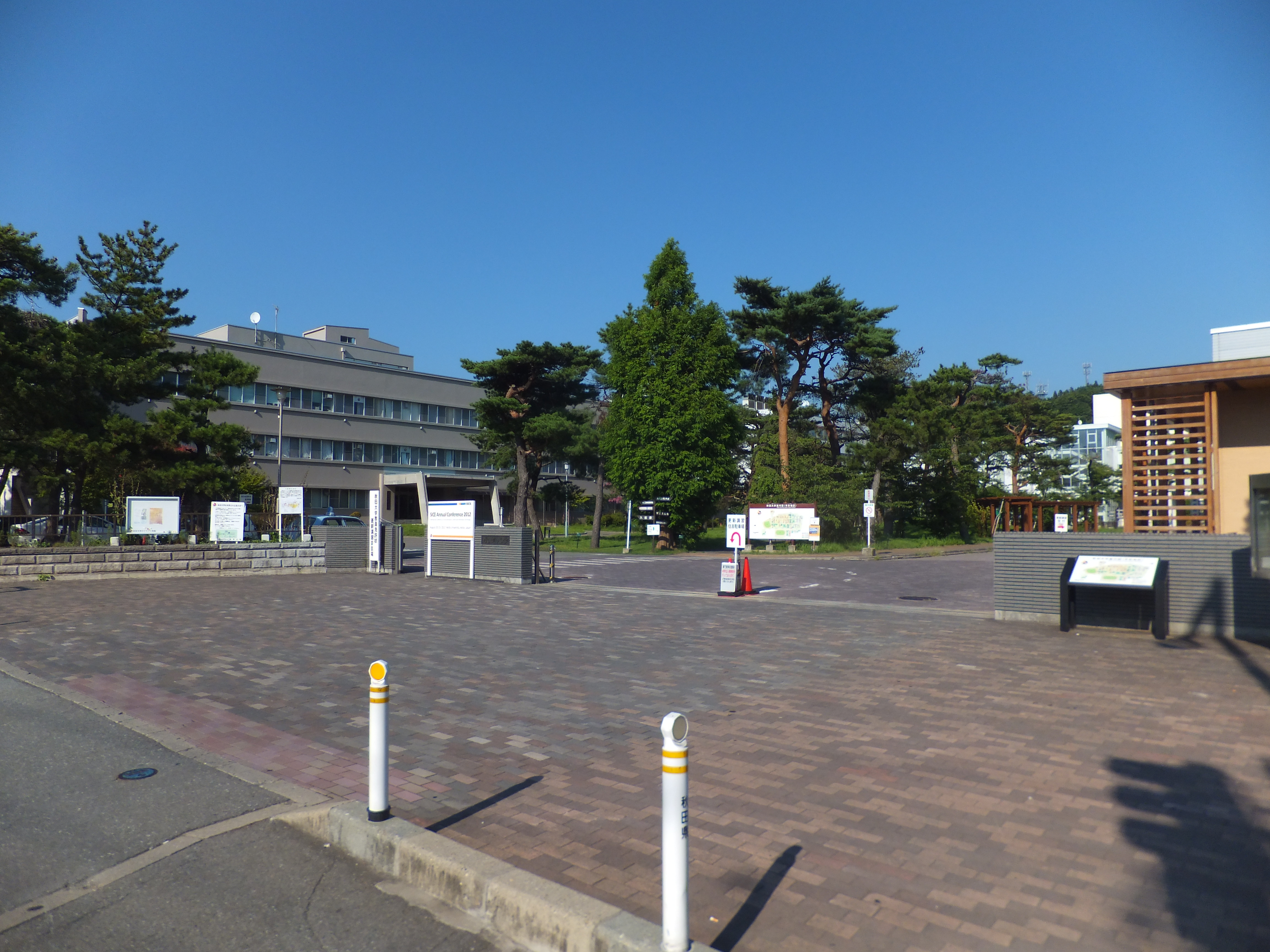 Main gate of Tegata Campus, Akita University, Japan.